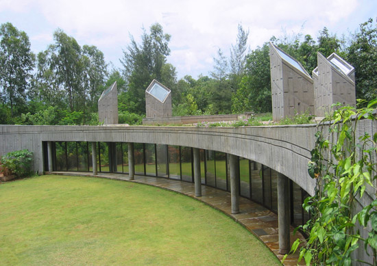 YMCA Camp Site Picture; YMCA International Camp, Nilshi, India.